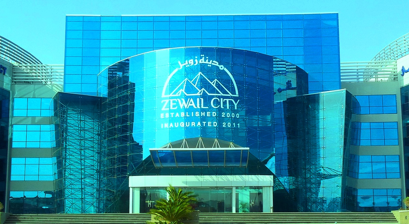 Zewail city main entrance